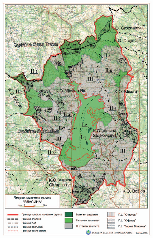 Map of protected areas in the vicinity of Vlasina Lake, Serbia